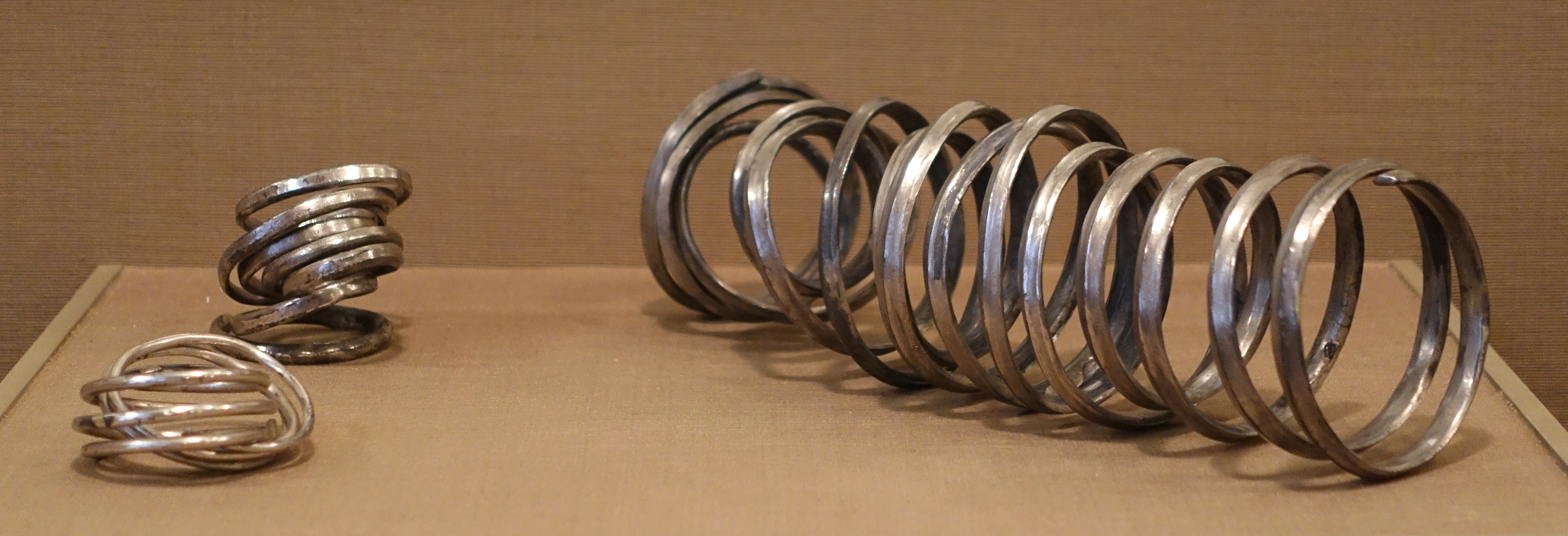 Exhibit in the Oriental Institute Museum, University of Chicago, Chicago, Illinois, USA. This work is old enough so that it is in the public domain.